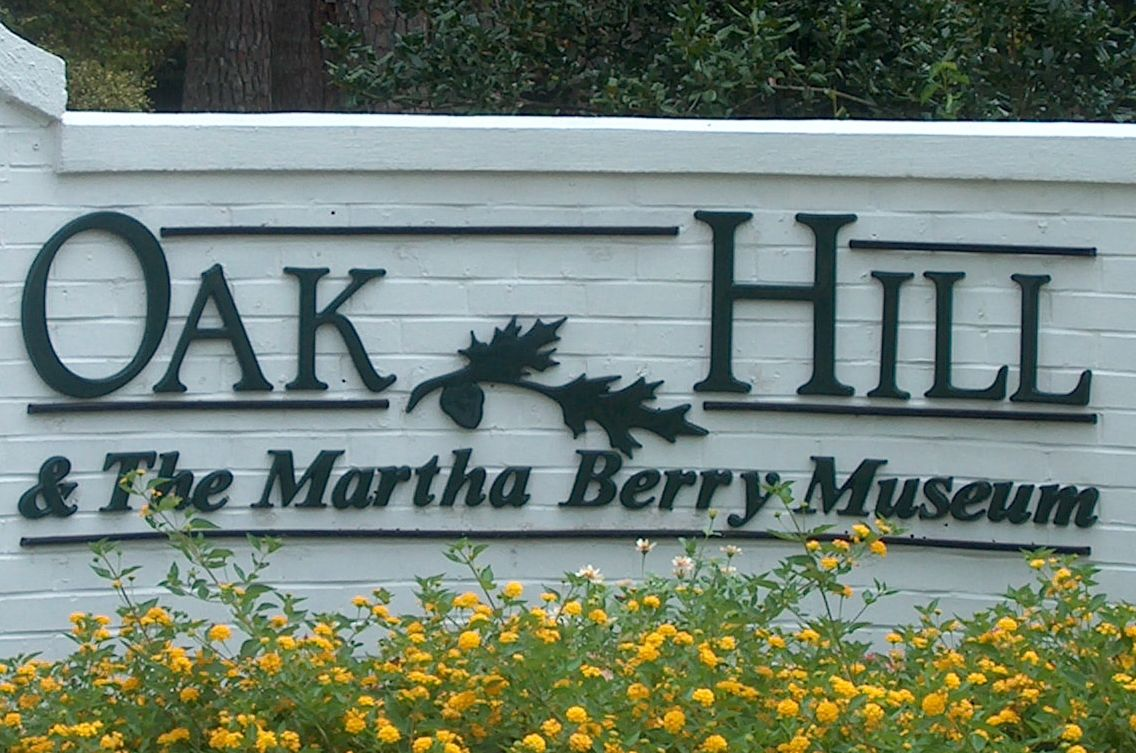 Gate to Oak Hill, a home of Martha Berry with namesigns for Oak Hill - The Martha Berry Museum